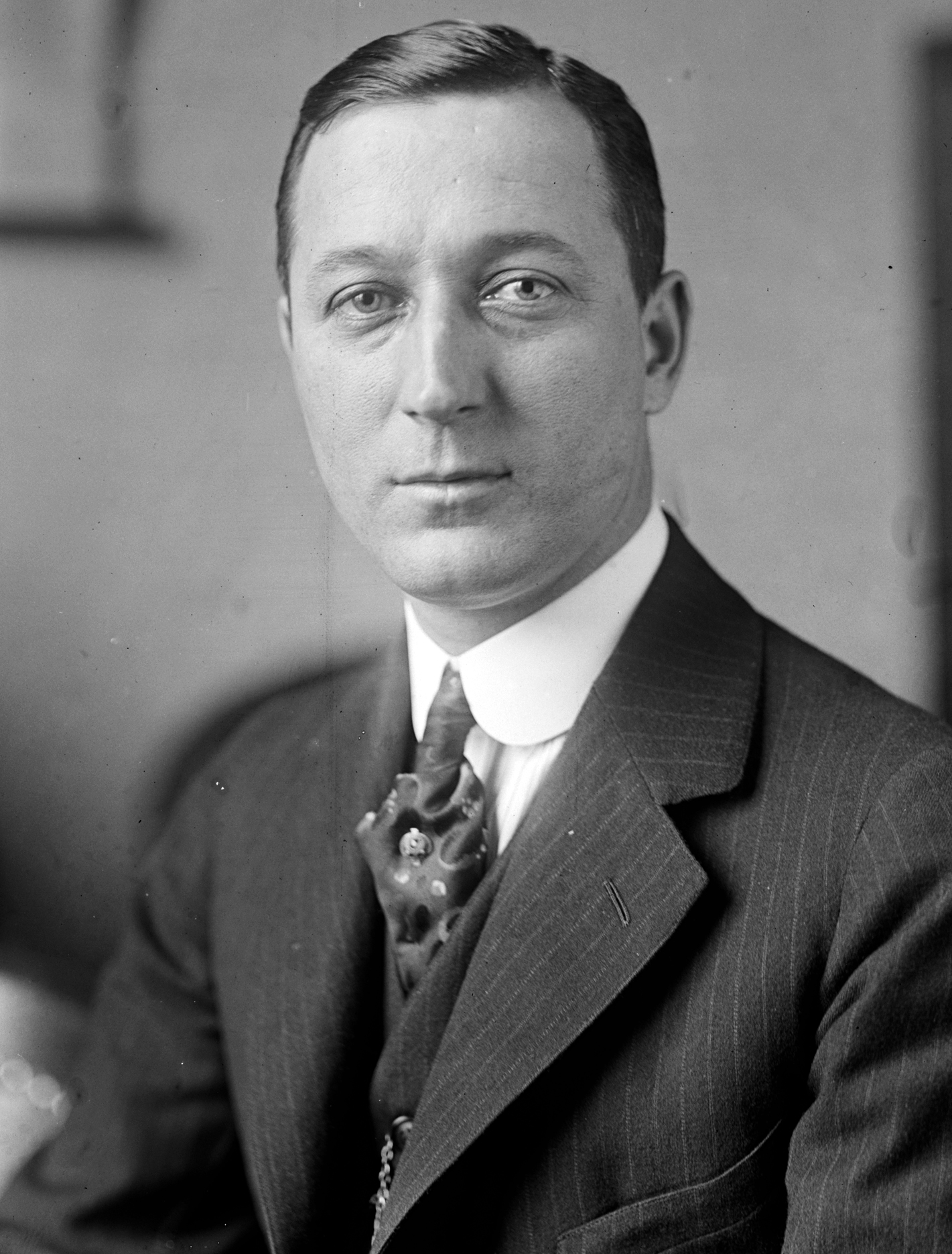 Jeremiah E. O'Connell, US Representative from Rhode Island